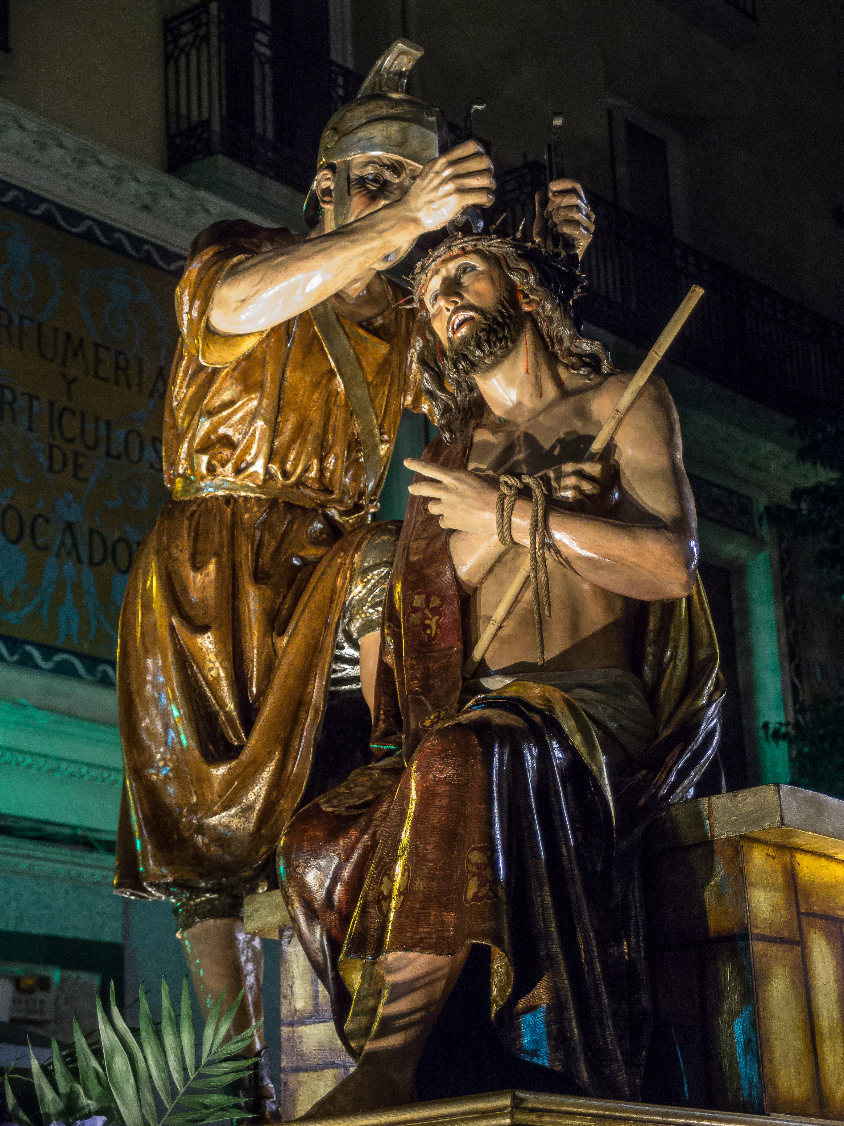 OLYMPUS DIGITAL CAMERA This is a photography of a Folklore festival in Spain (Wikidata id Q9075892).